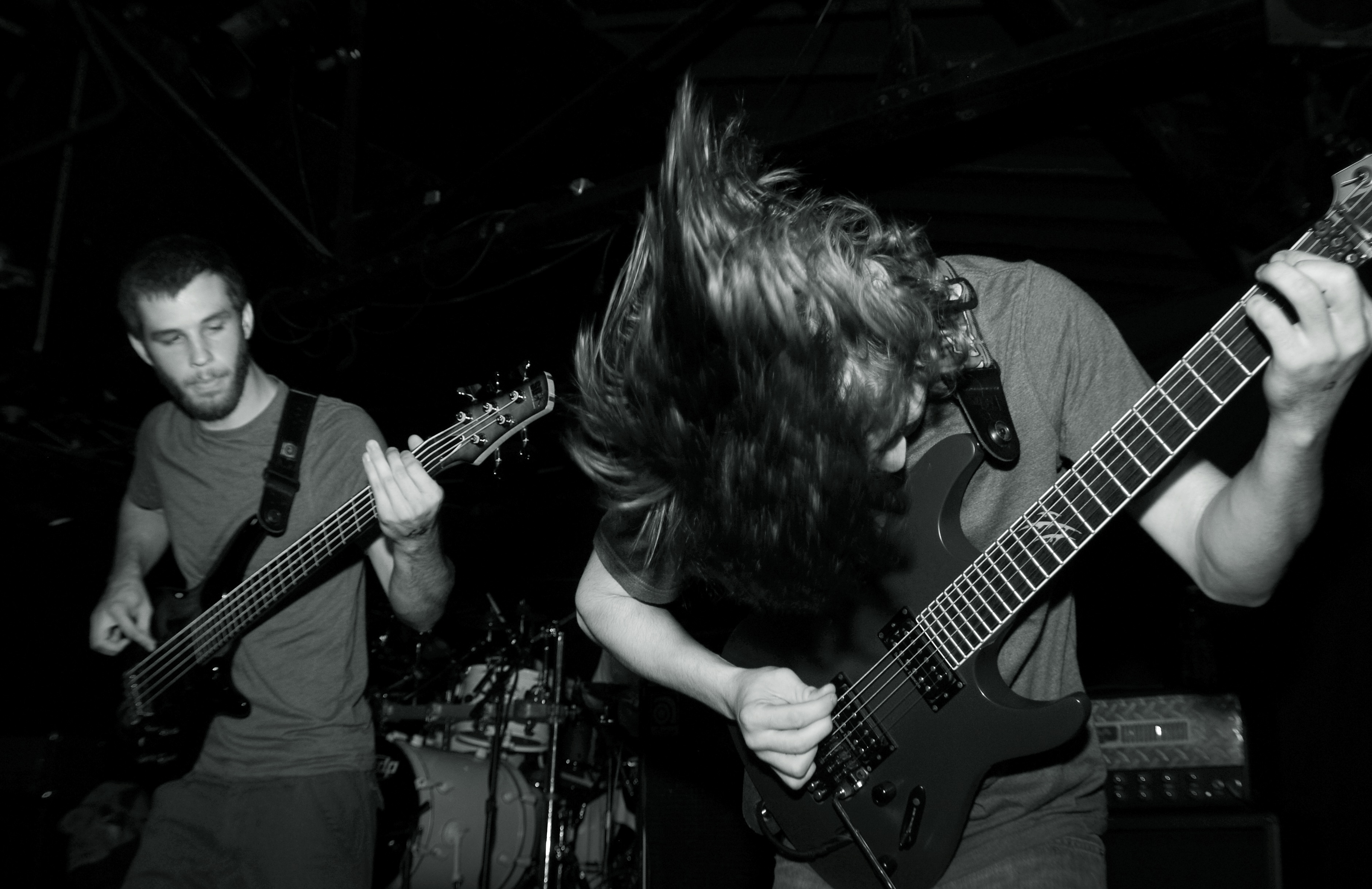 The Contortionist live at The Hayloft in 2010.